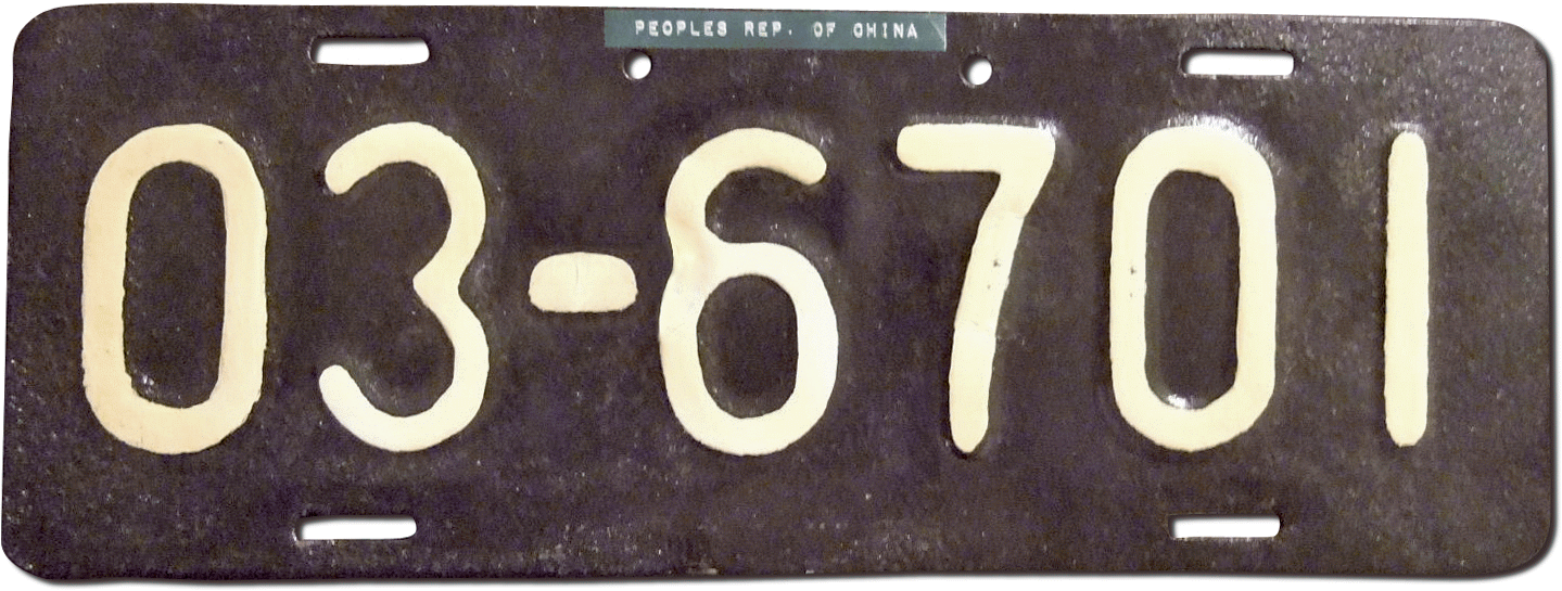 CHINA Inner Mongolia c.1940's passenger (holes have been removed by edditing the image).